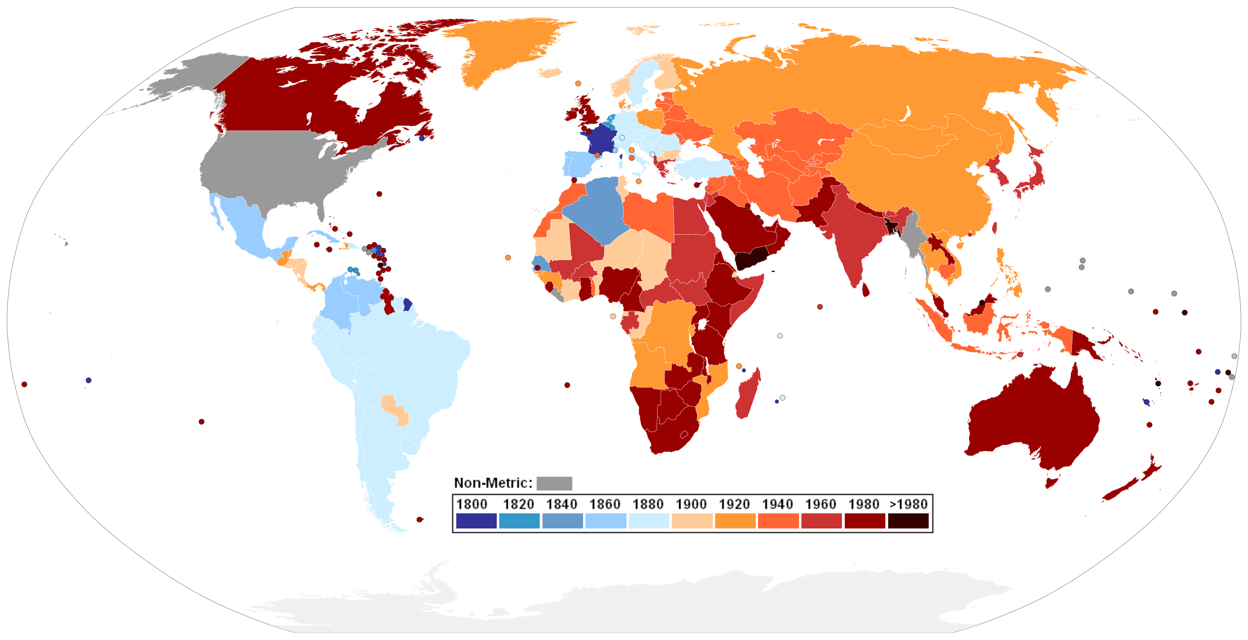 English (en): This nation has adopted the metric system by: 1800 1820 1840 1860 1880 1900 1920 1940 1960 1980 Data currently not available. Countries which have not adopted the metric system. (Note regarding the United Kingdom and the United States: Data indicates UK was metric in the 1960s – they made a decision to go metric in the 1960s and made a legal commitment to do so in 1973 as part of its conditions for membership in the EEC (now the EU), but then did little about the decision. The UK now uses a combination of metric and imperial units however, and it is illegal to sell products weighed only in imperial measurements but imperial units may be shown alongside metric weights; imperial measurements have not been taught in schools since the 1970s but most adults and children know their height and weight only in imperial units. The European Union no longer requires the United Kingdom to convert completely to metric. This is similar to the situation occurring in the US, where metric is a legal system for lengths and weights, though its metrication process has been very slow due to public pressure and lack of funding.)